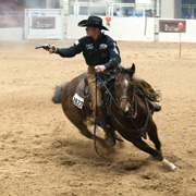 Image of Mounted Shooting competitor